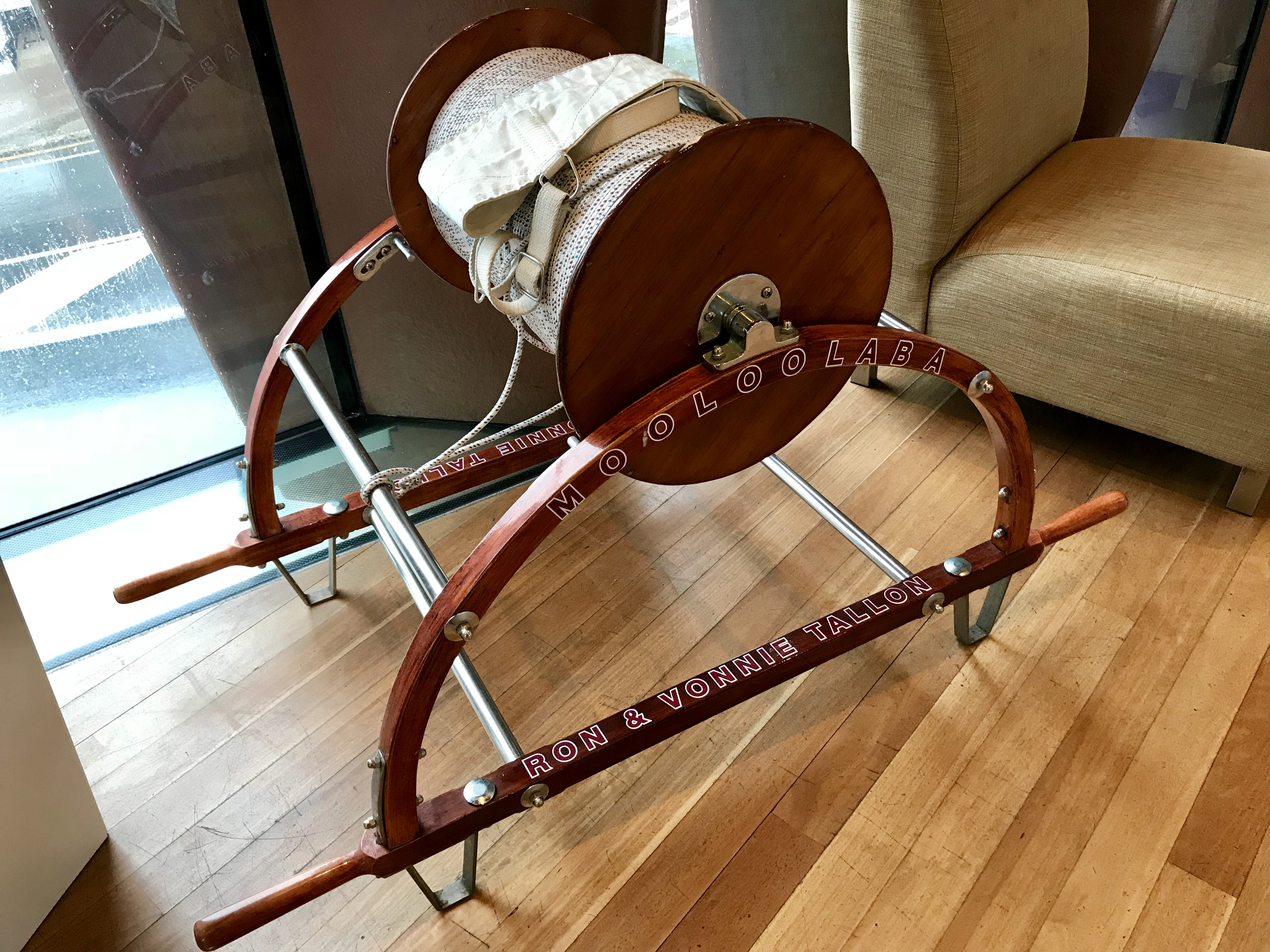 Mooloolaba Surf Life Saving Club, Mooloolaba, Queensland